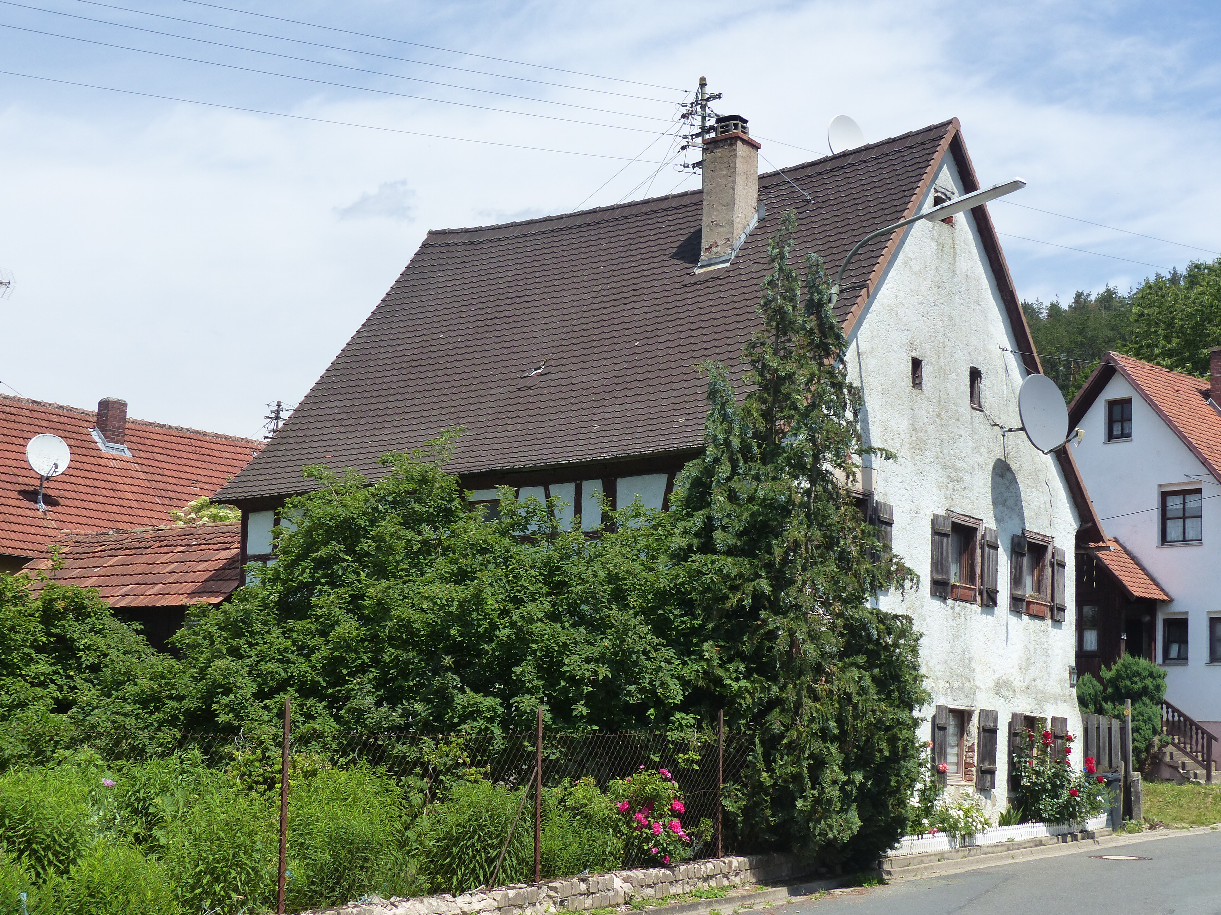 The farmhouse of the estate with the house number 4 in the village Poppendorf, a district of the municipality of Pretzfeld.